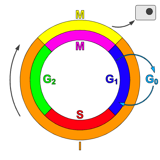 By Richard Wheeler (Zephyris) 2006. Schematic representation of the cell cycle. Cytokinesis forms rapidly in the process of the cell cycle.